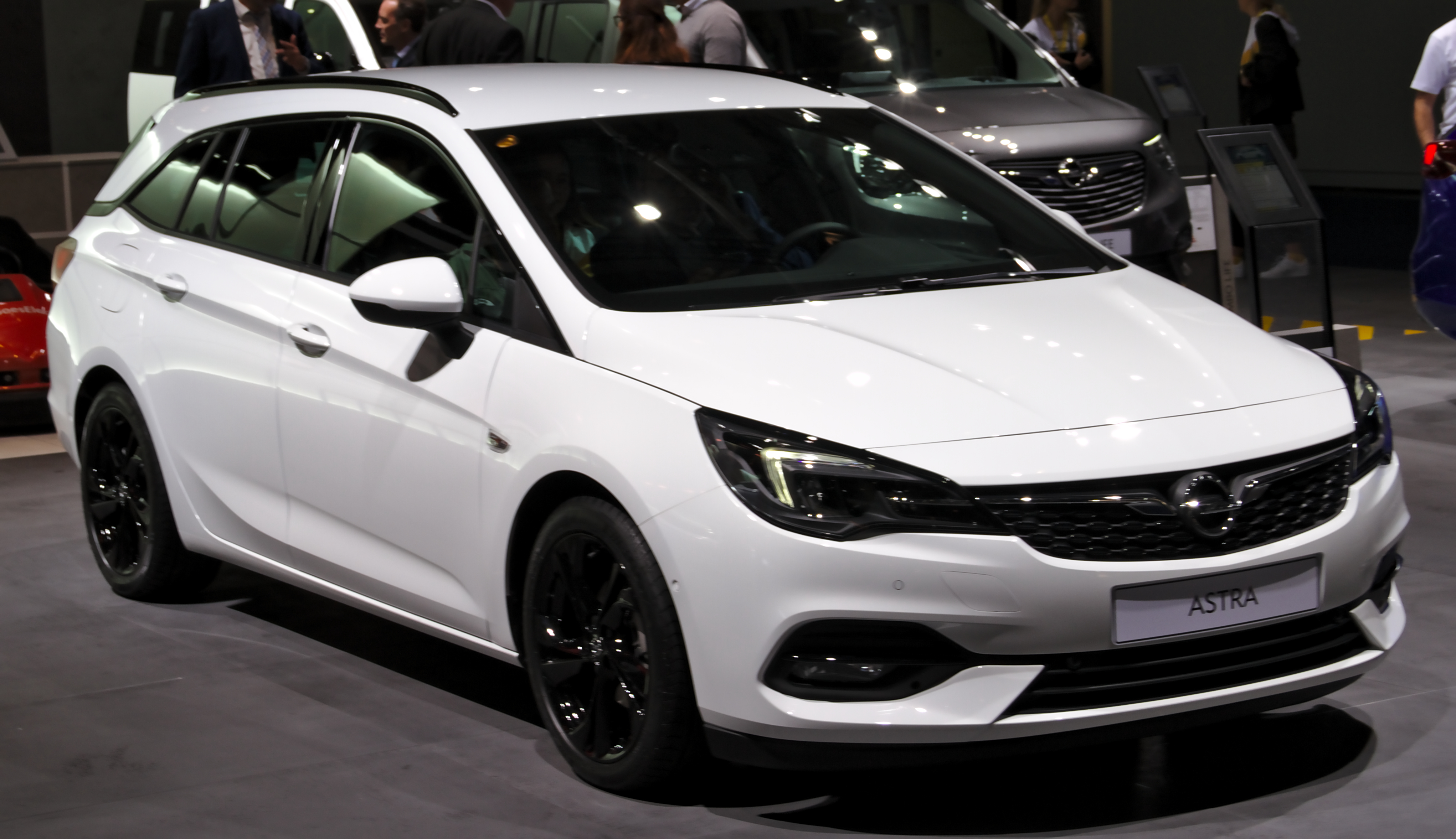 Opel_Astra_K_Sports_Tourer at IAA 2019